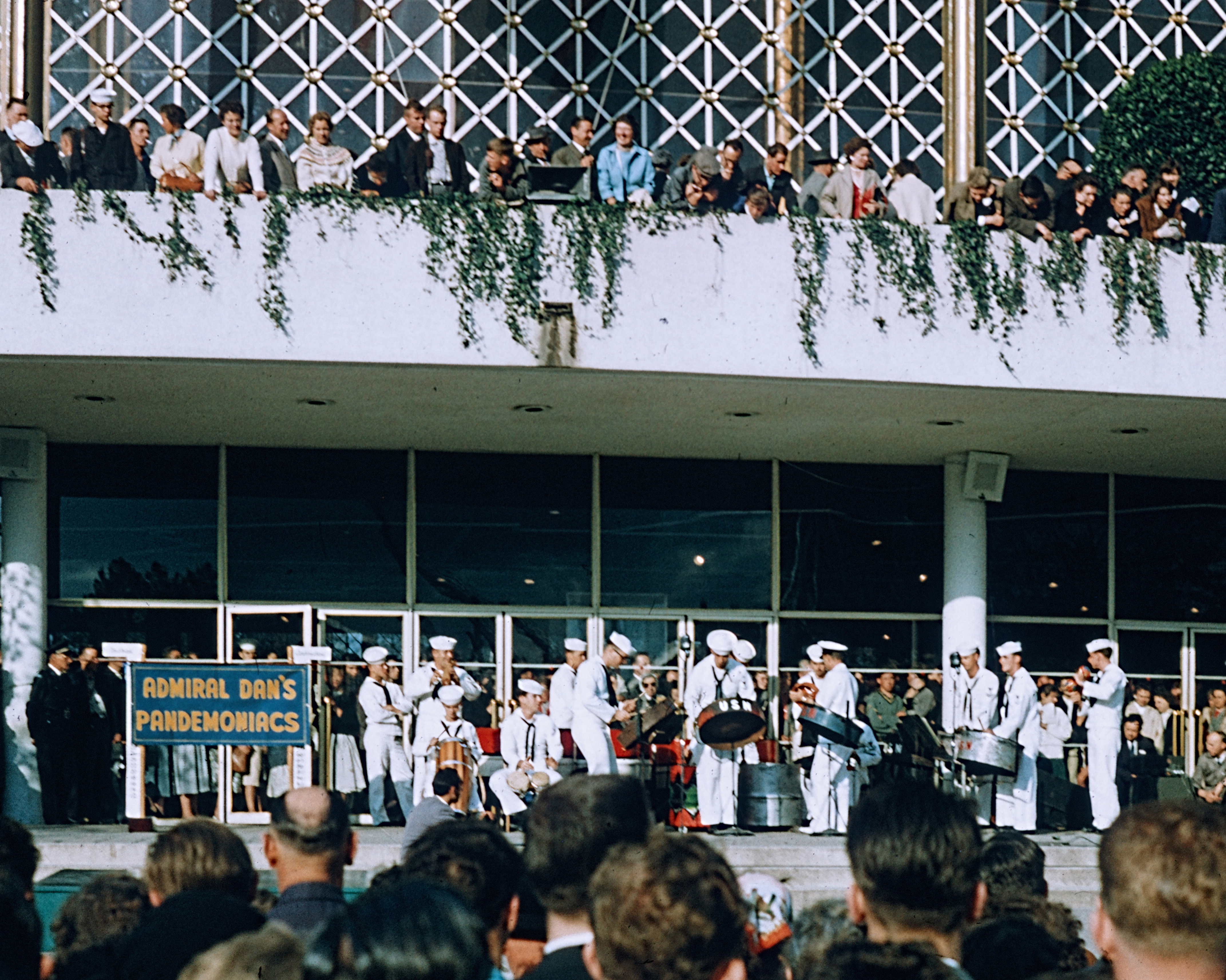 United States Navy Steel Band, otherwise known as Admiral Dan's Pandemoniacs. United States Pavillion, Expo 58, Brussels, Belgium